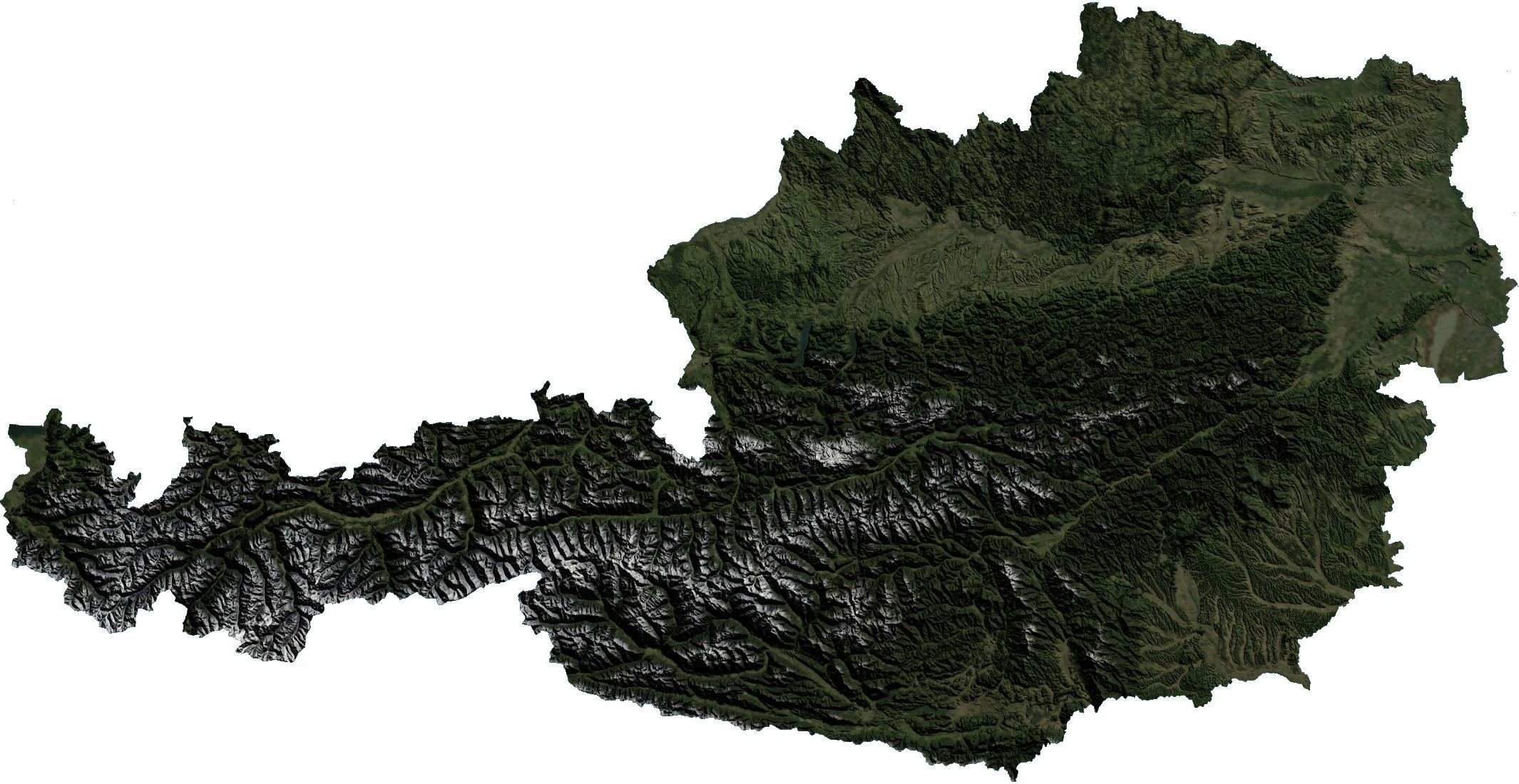 the map was produced by Matt Fox ( for details). I only reprojected the map from geographical lat/lon to Albers Equal Area conic (Standard parallels 46.5 and 48.5 north). Matt Fox allowed me to license this map as "public domain": Sure, no problem, you can post as Public Domain with no restrictions. Credit to appreciated, but not required. Matt Fox On Wed, Jul 14, 2010 at 5:28 AM, Kurt Trinko wrote: Matt, the resolution is 2130 x 1100 pixel (actucal size without any map border/map collar) Kurt --- Matt Fox schrieb am Mi, 14.7.2010: Von: Matt Fox Betreff: Re: license question An: "Kurt" Datum: Mittwoch, 14. Juli, 2010 05:00 Uhr What is the resolution of your version? Matt On Tue, Jul 13, 2010 at 9:19 AM, GELIB Kurt wrote: I reprojected your austria.tif, may I upload it on wikicommons (with credits to = is this a non commercial usage for you? thnx Kurt